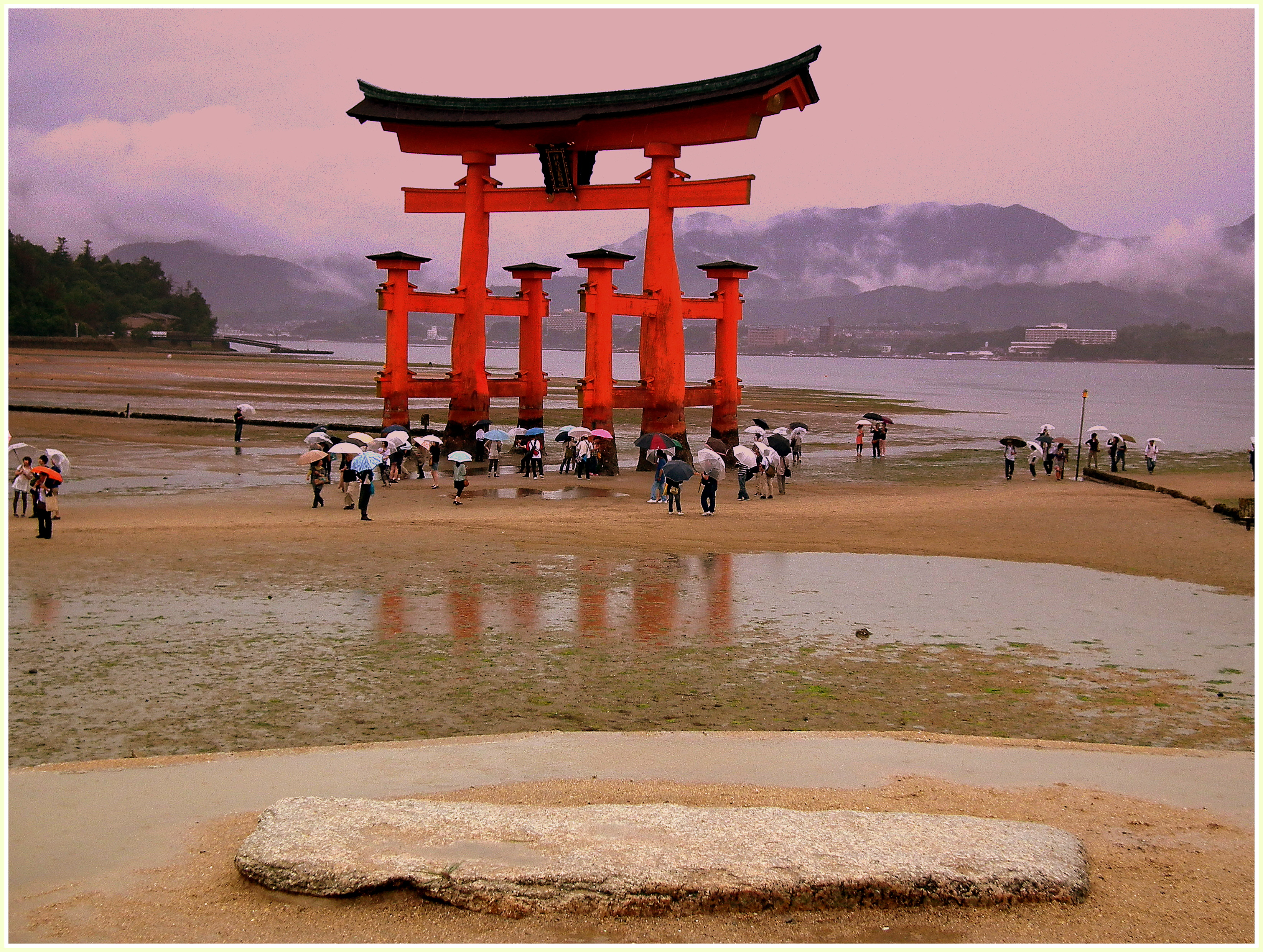 O-TORII GATE MIYAJIMA ISLAND HIROSHIMA BAY JAPAN JUNE 2012